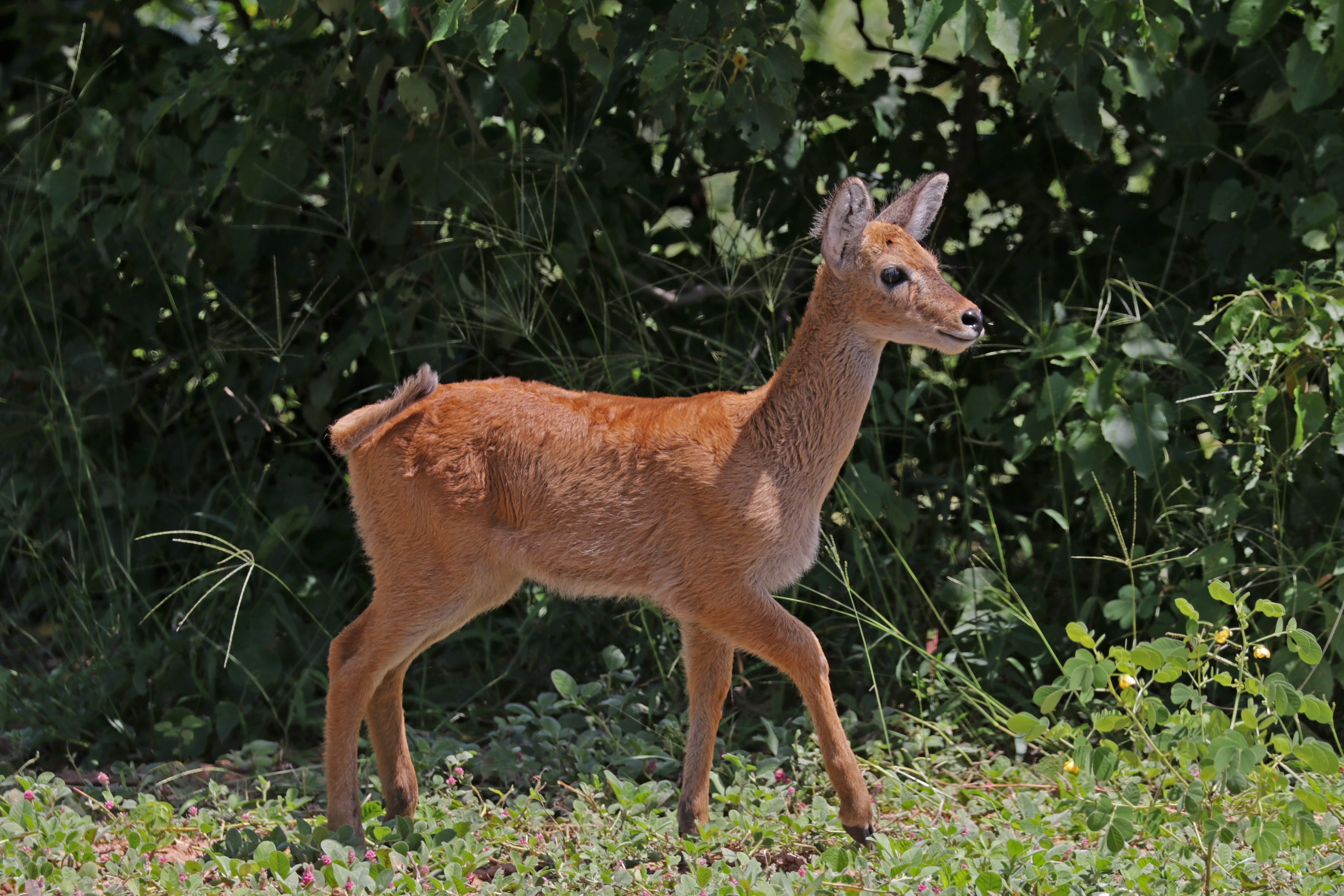 Southern puku (Kobus vardonii vardonii) fawn, Chobe National Park, Botswana